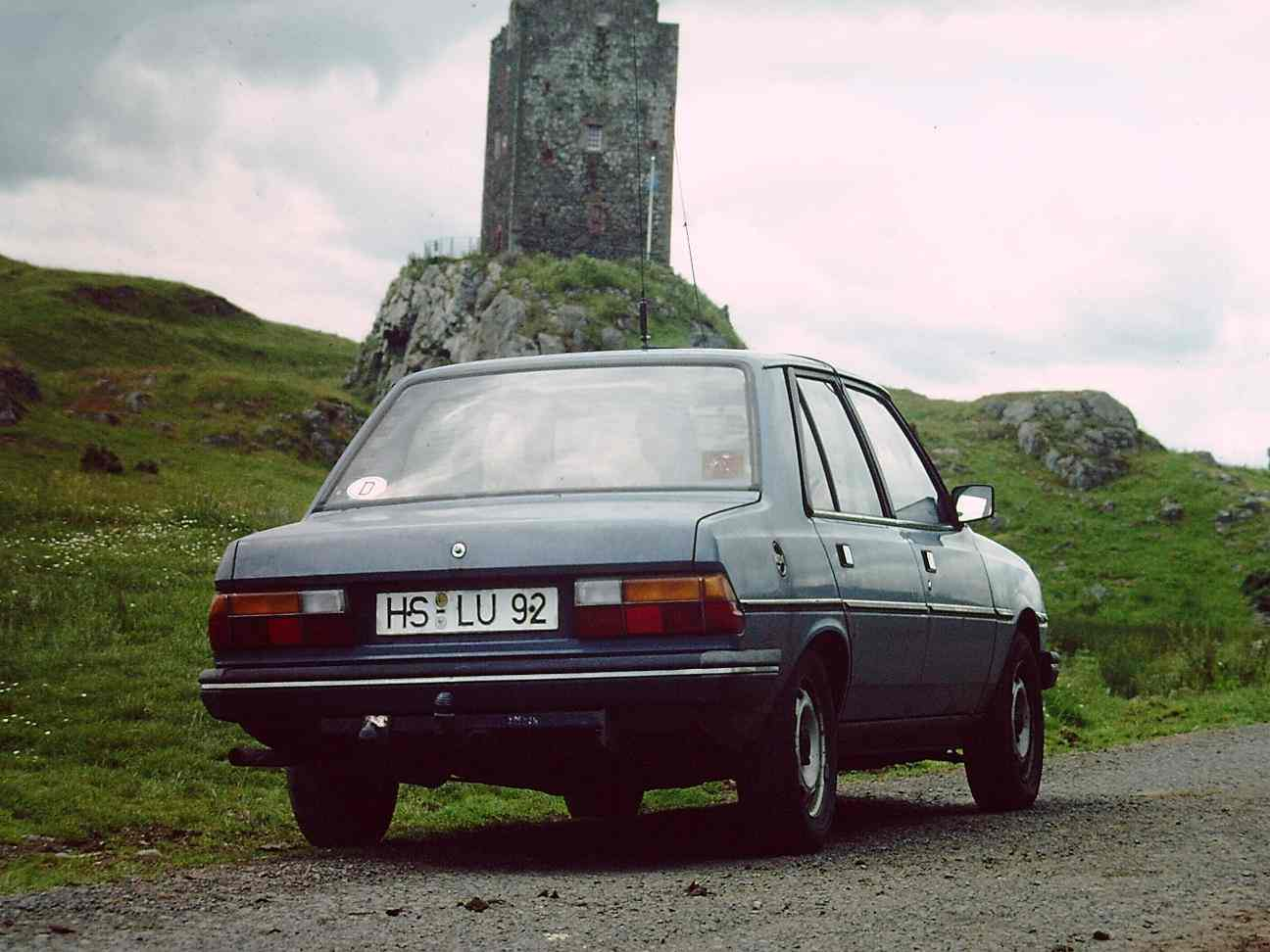 Peugeot 305 GLD, Series II